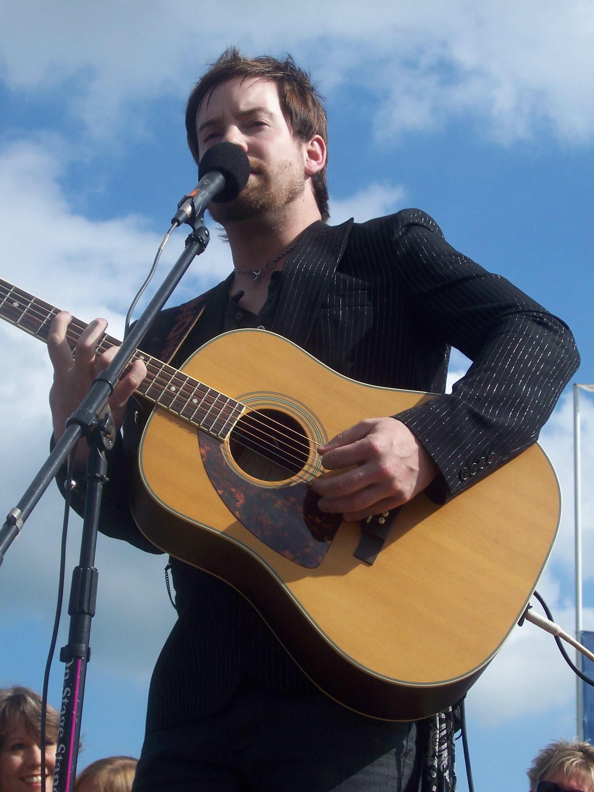 David Cook performs in his hometown of Blue Springs, Missouri.